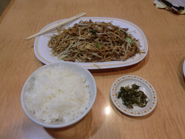 This is Hita Yakisoba(fried noodles in sauce) .This is famous in Hita city,Japan.